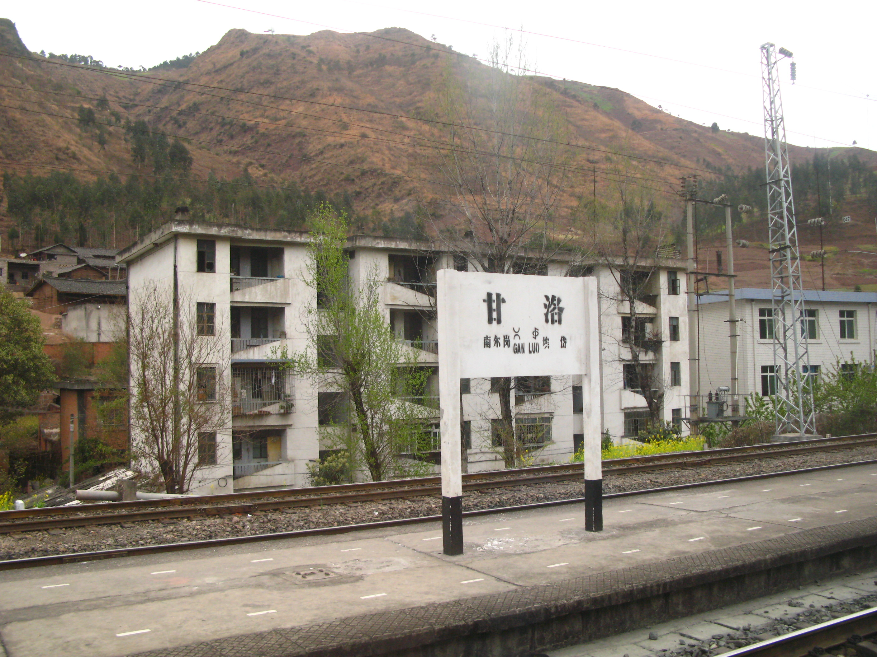 Ganluo Station at Chengdu–Kunming Railway